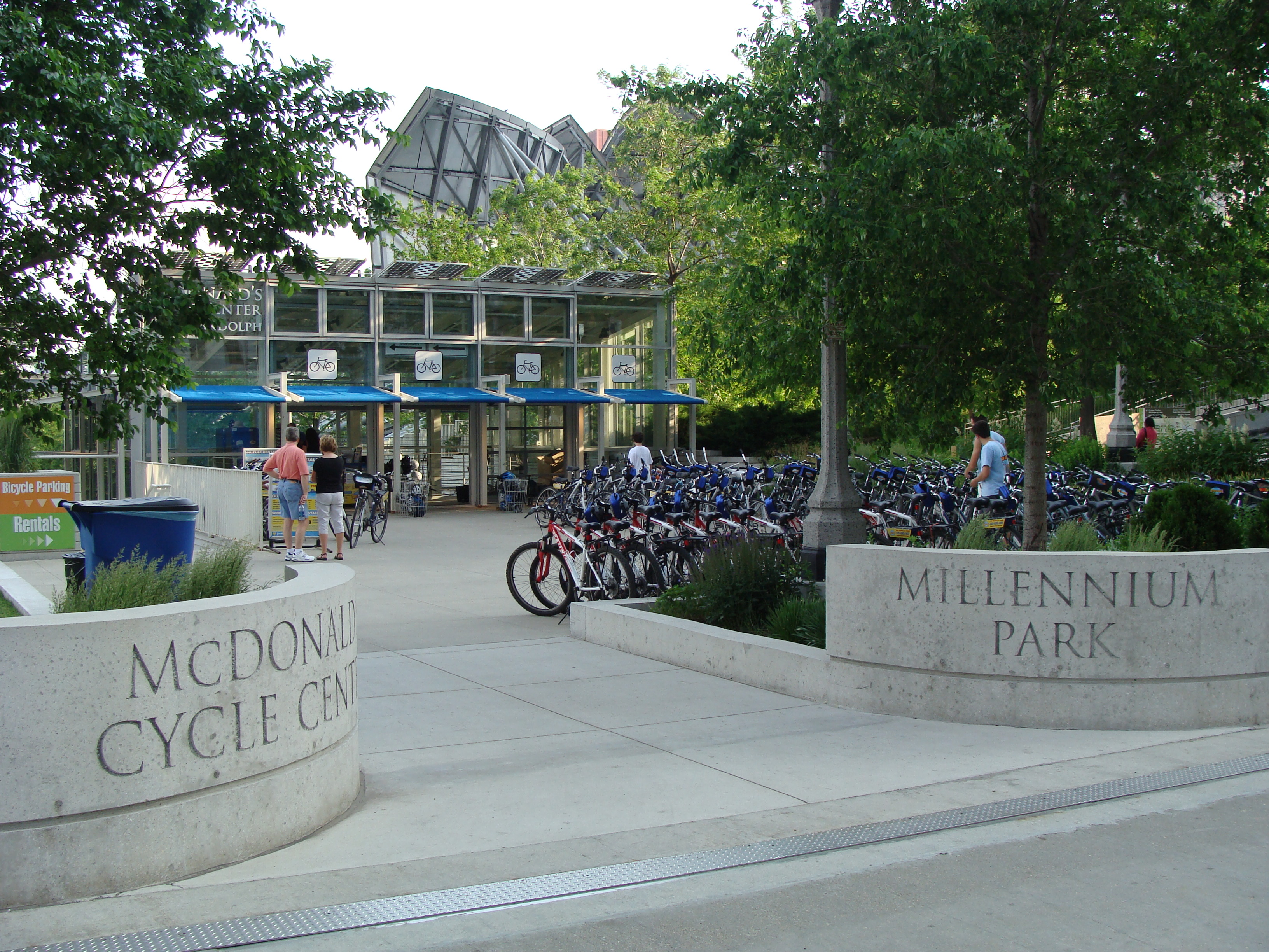 McDonald's Cycle Center with signed in front.